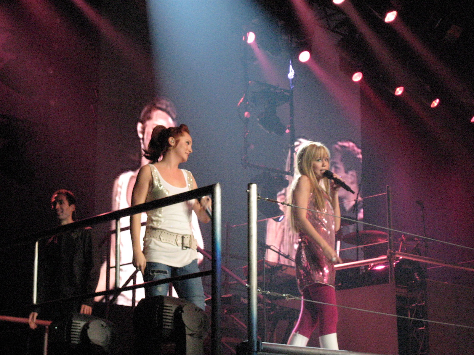 Hannah Montana aka Miley Cyrus on the stage of Hannah Montana Tour